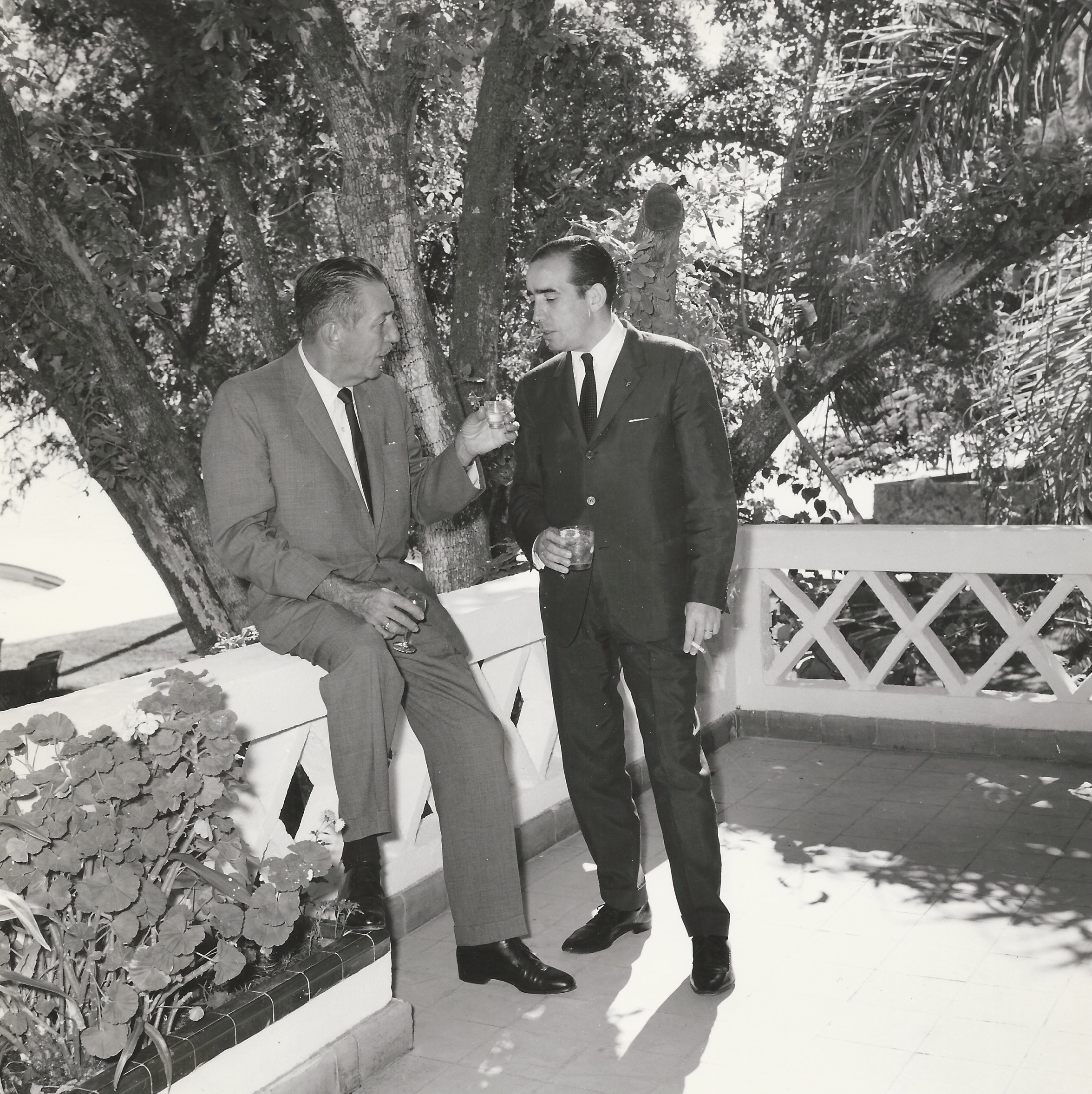 Walt Disney (left) with César Balsa, a Spanish-born hotelier and restaurateur who worked in the hotel and restaurant industry in Mexico in the 1950s and 1960s